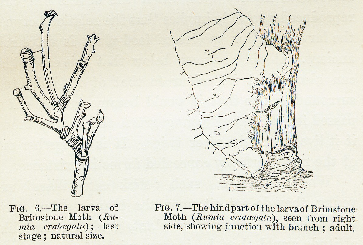 Two figures of the larva of the Brimstone Moth, Opisthograptis luteolata from Poulton's The Colours of Animals, 1890.